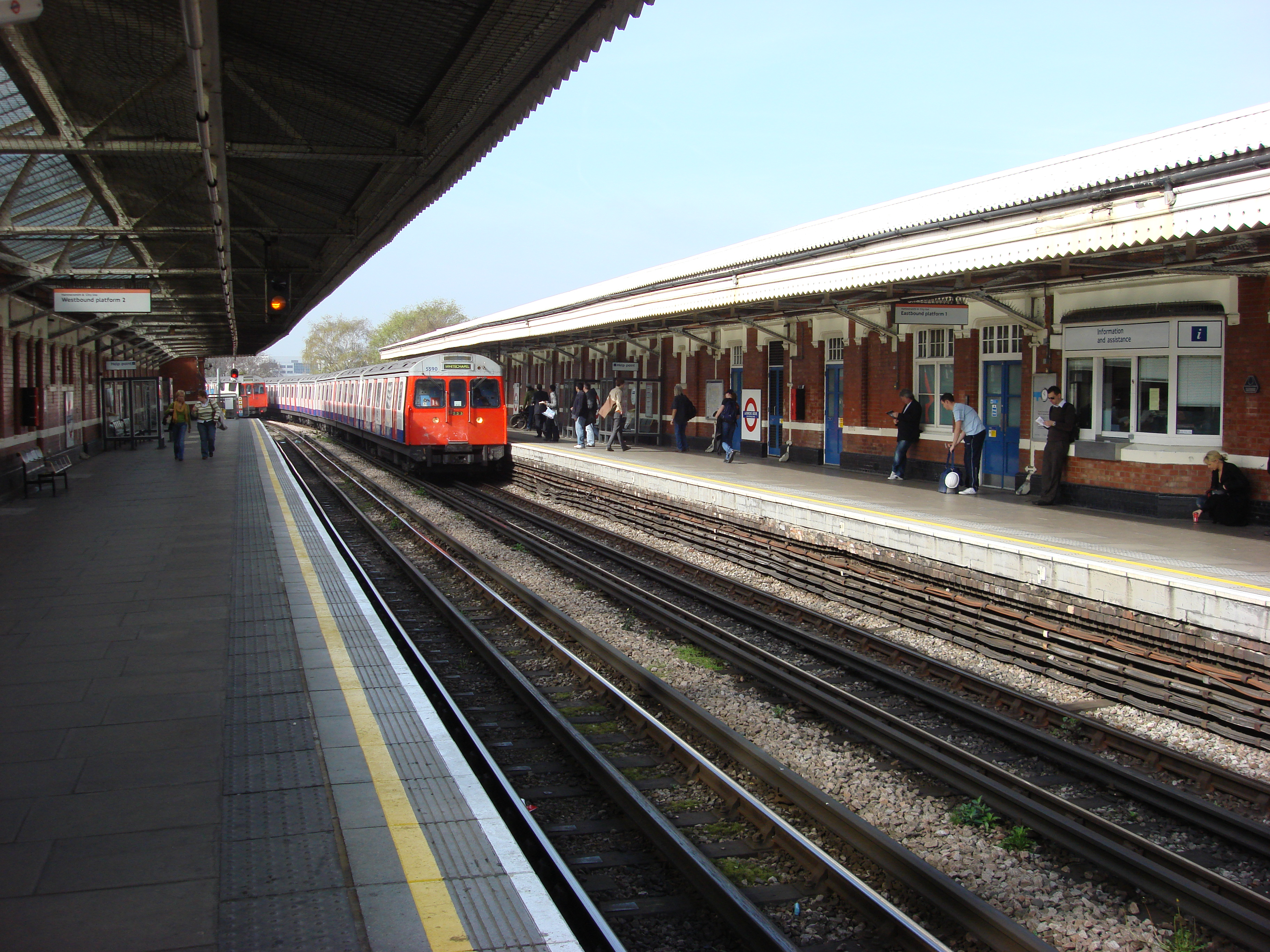 Ladbroke Grove tube station, Taken from the Westbound platform